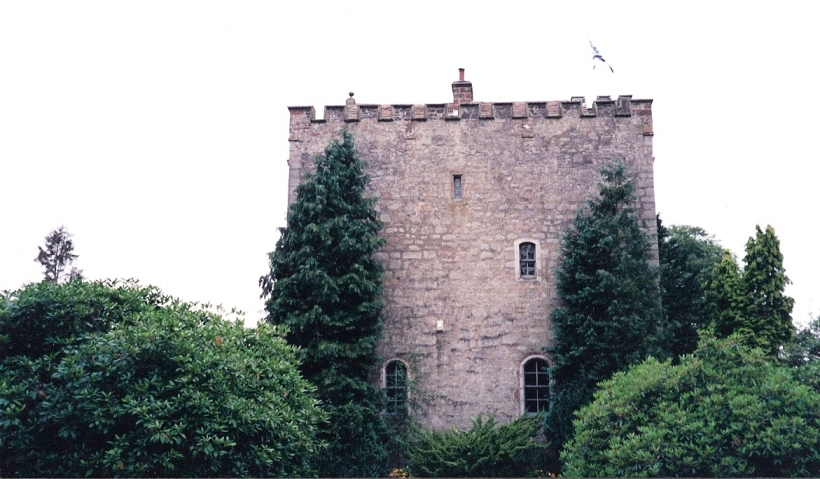 Tower of Closeburn Castle, Scotland, taken by me during the summer of 2000.